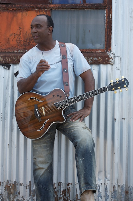 Thomas McClary, Co-Founder of The Commodores